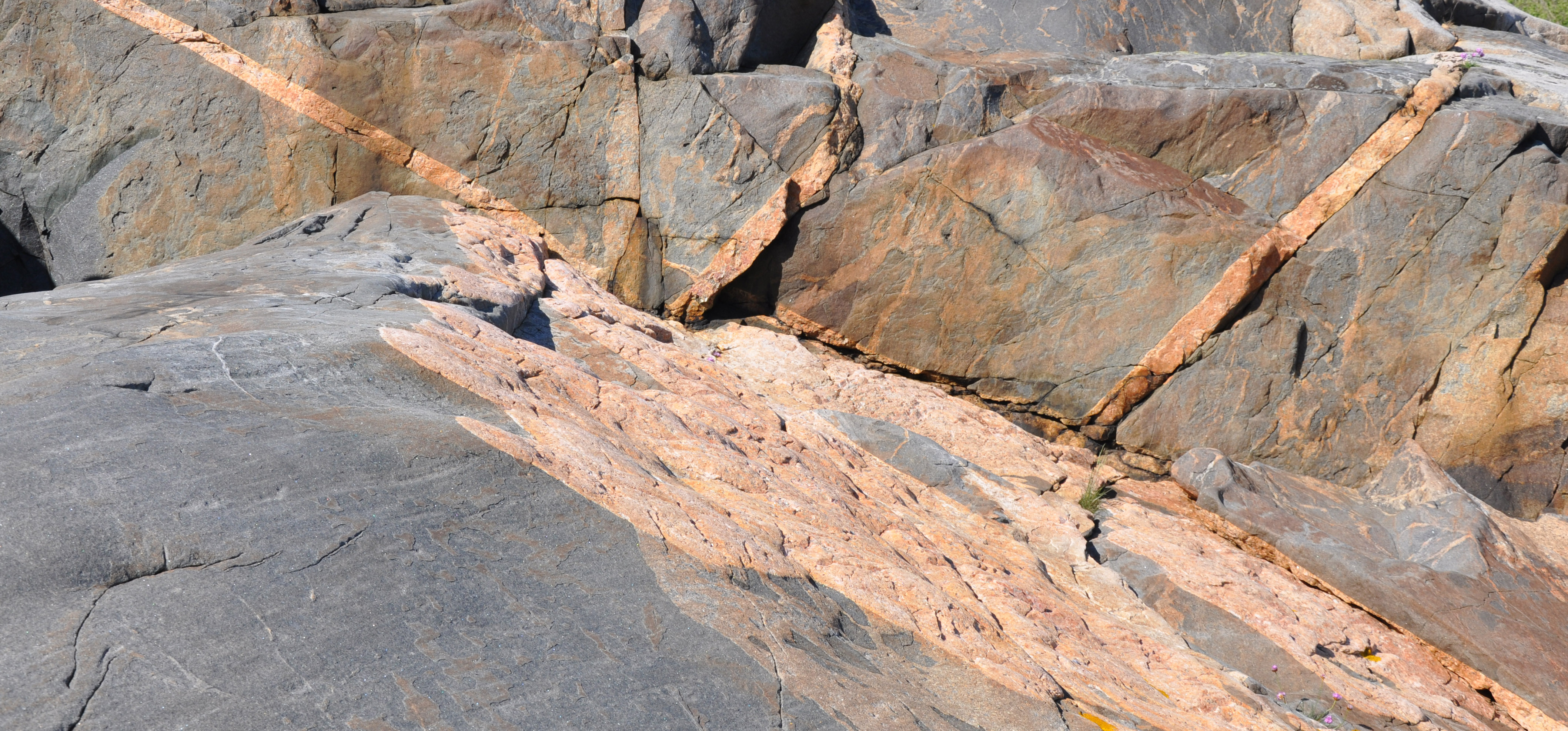 Pegmatite dikes at Smithska udden, Gothenburg, Sweden